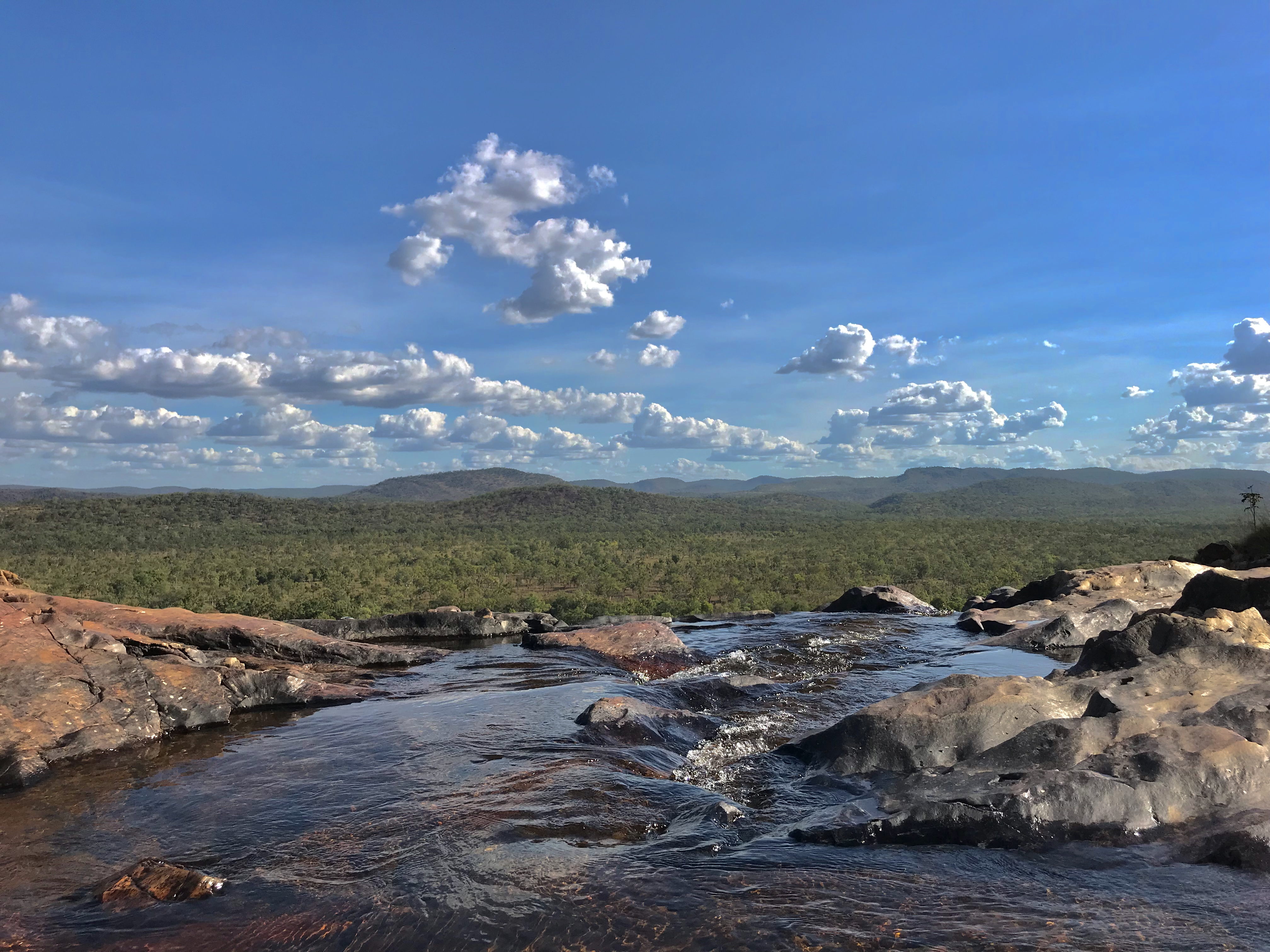 Nature our constant inspiration.